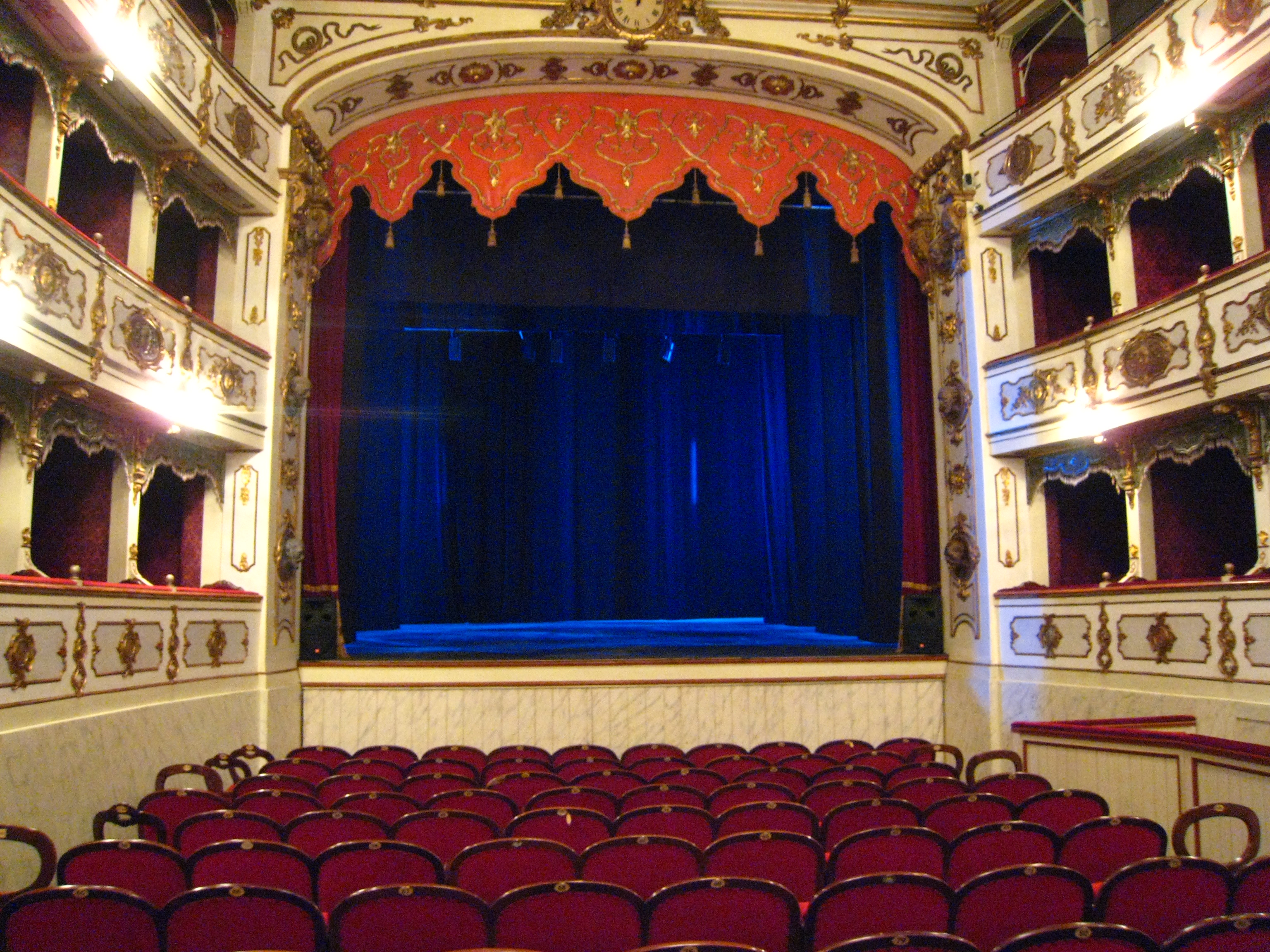 Italy - Busseto - Theater